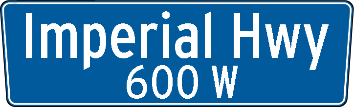 City of Los Angeles street sign for Imperial Highway, created using Photoshop after internet research